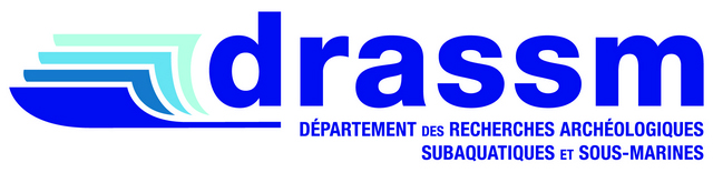 logo Drassm